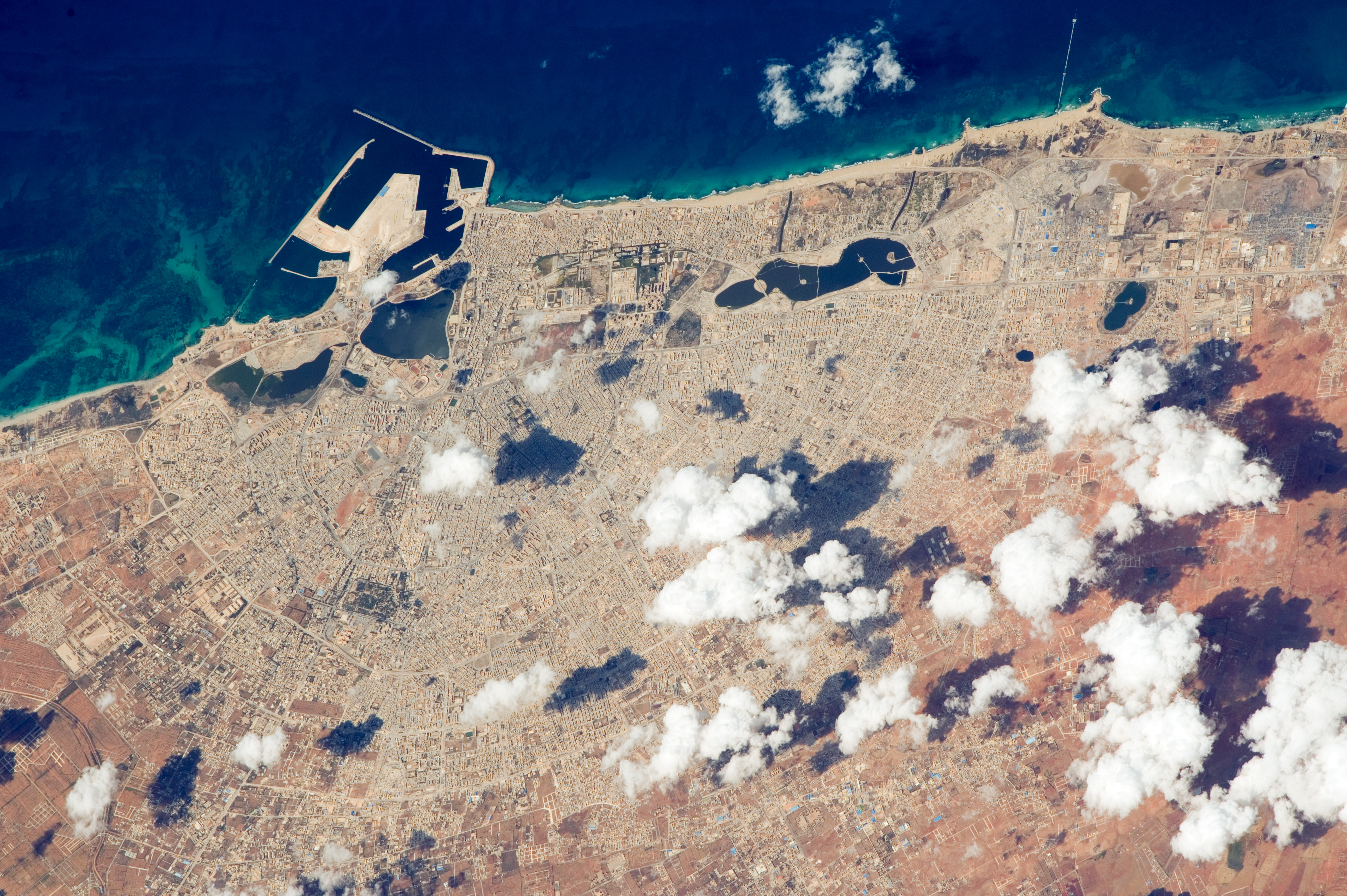 This image of the Earth is one of many that Expedition 47 crew members take on a minute by minute basis as the International Space Station orbits the Earth.